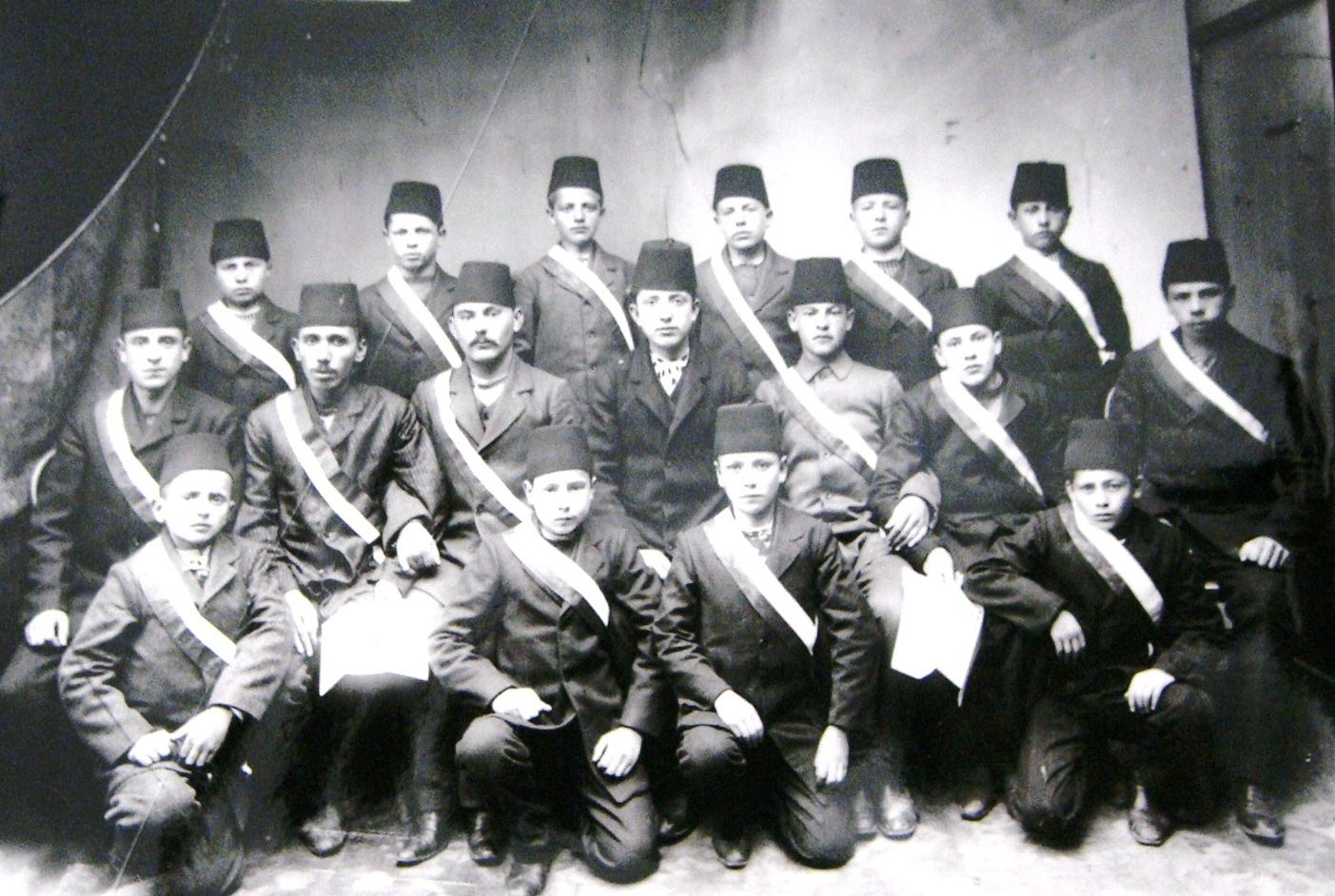 Students from the first Albanian school where has been used the Latin alphabet, after Debar Congress. (Bitola, 1909) (Damaged glass plate) This media file is produced by Wikipedian in Residence in Category:Wikipedian in Residence at DARM in 2016.